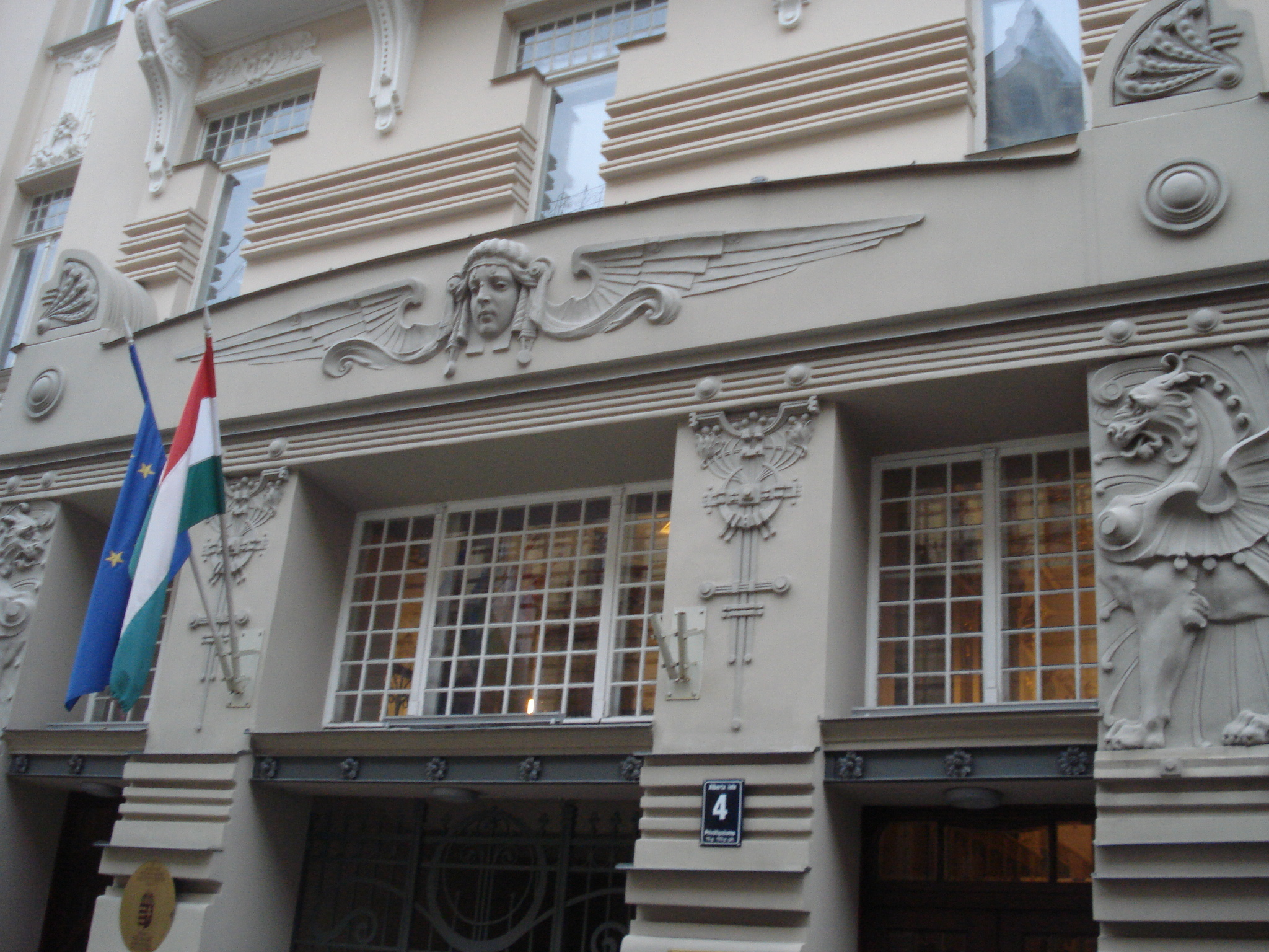 Art Nouveau Building in Riga, Alberta ielā 4. Architect Mikhail Eisenstein (1906). Facade. Now Embassy of Hungary